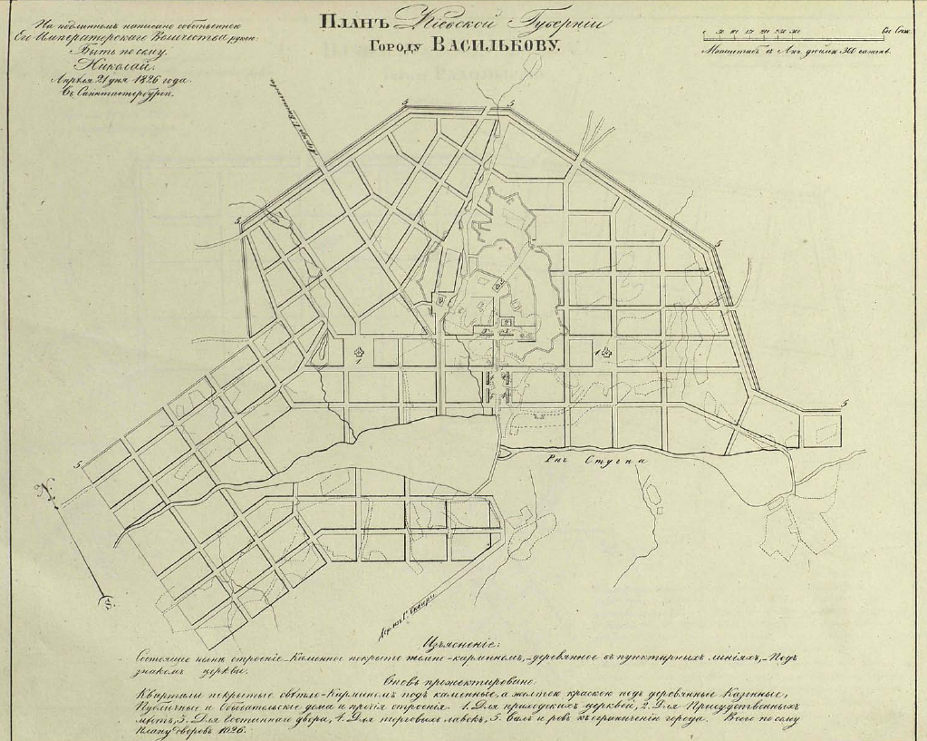 Plan of Vasylkiv city. 1826